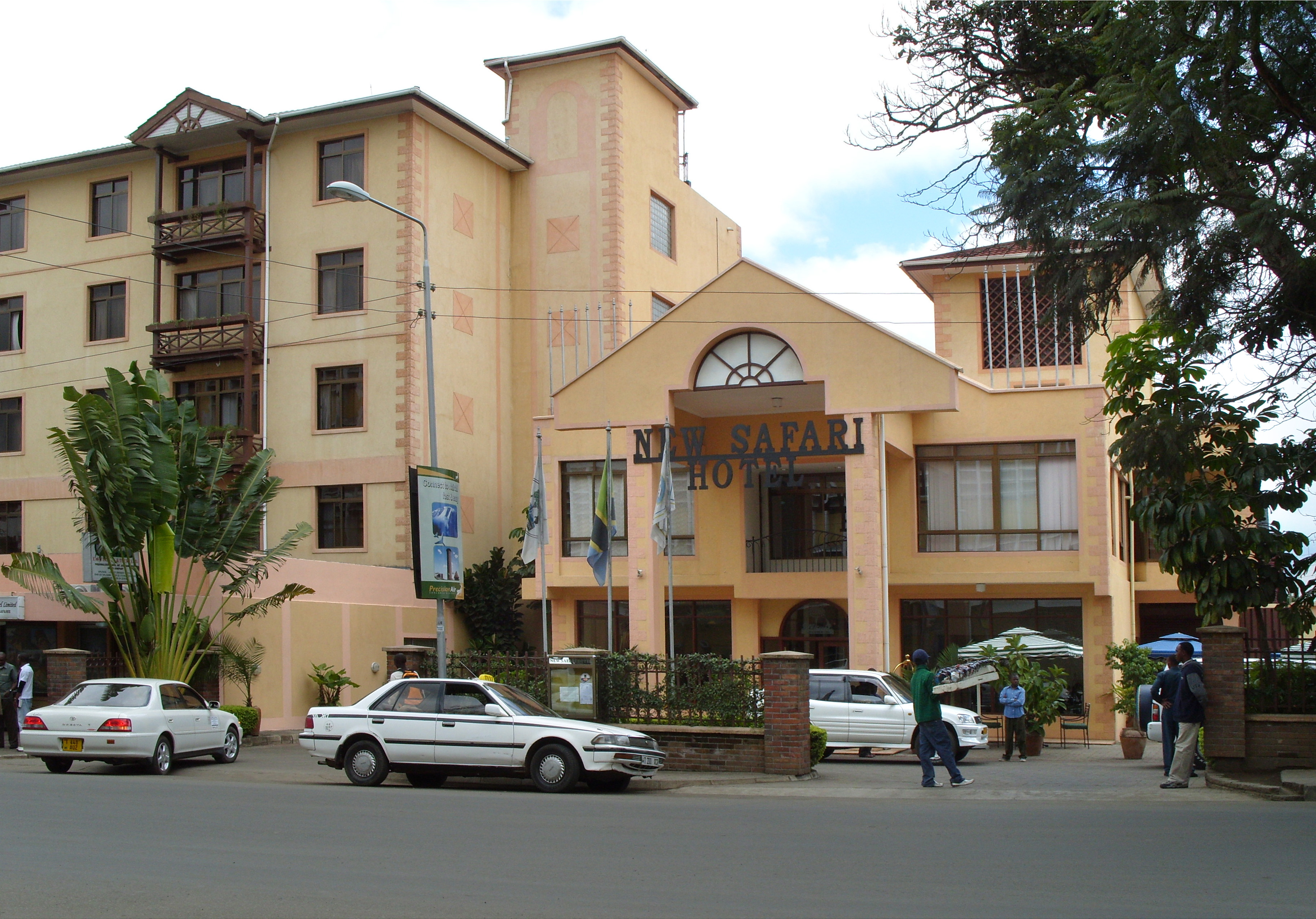 The front view of the New Safari Hotel in Arusha, Tanzania